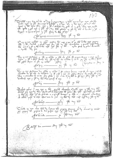 image of catalonian manuscript